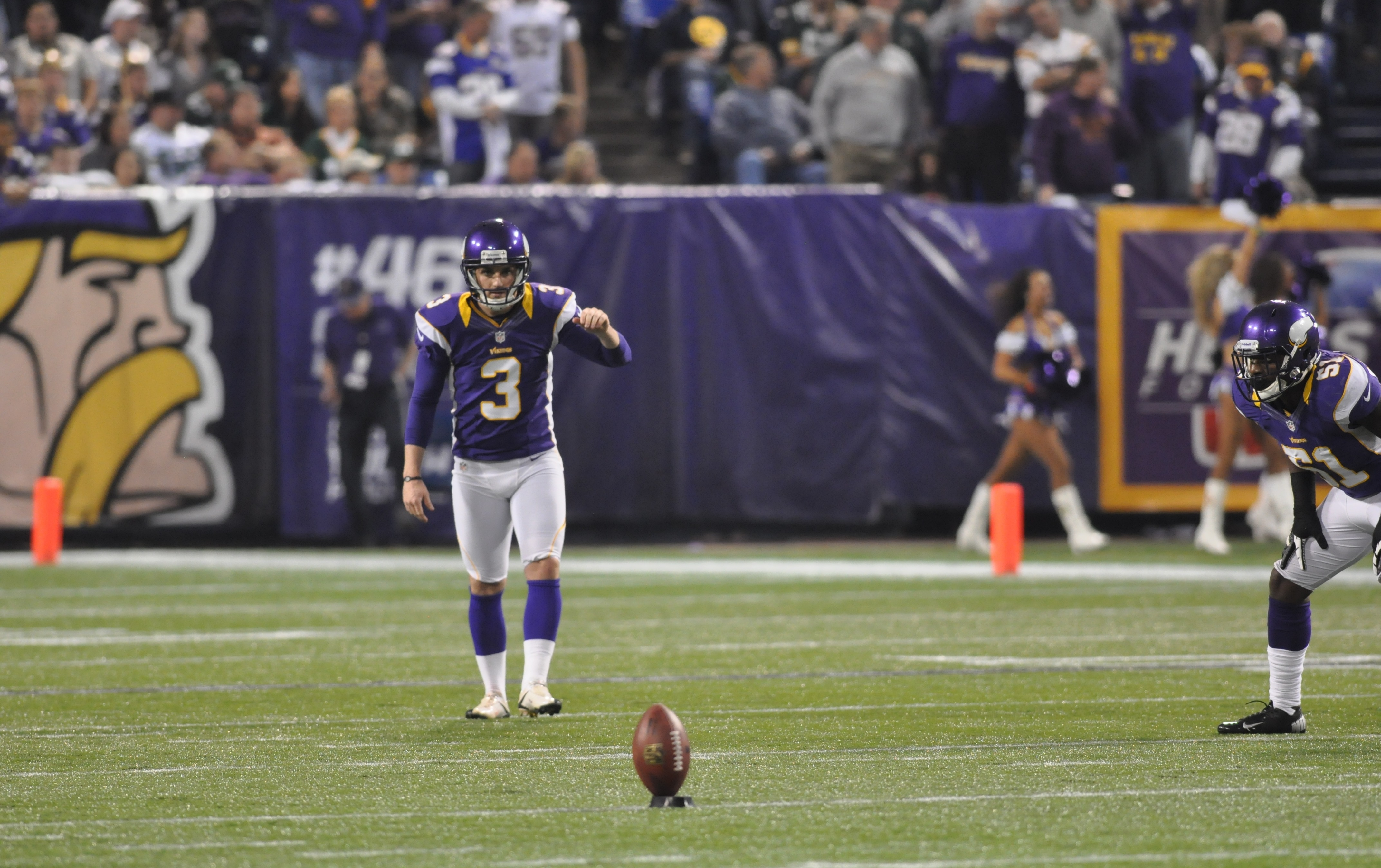 Blair Walsh of the Minnesota Vikings prepares for a kickoff while linebacker Larry Dean watches.